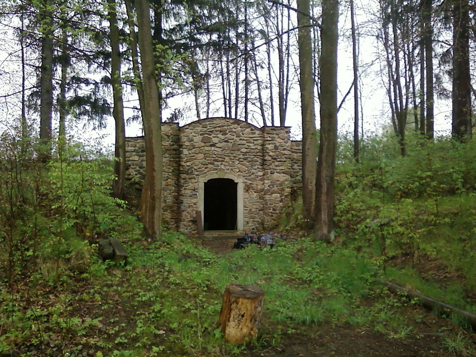 sklepení ledárny